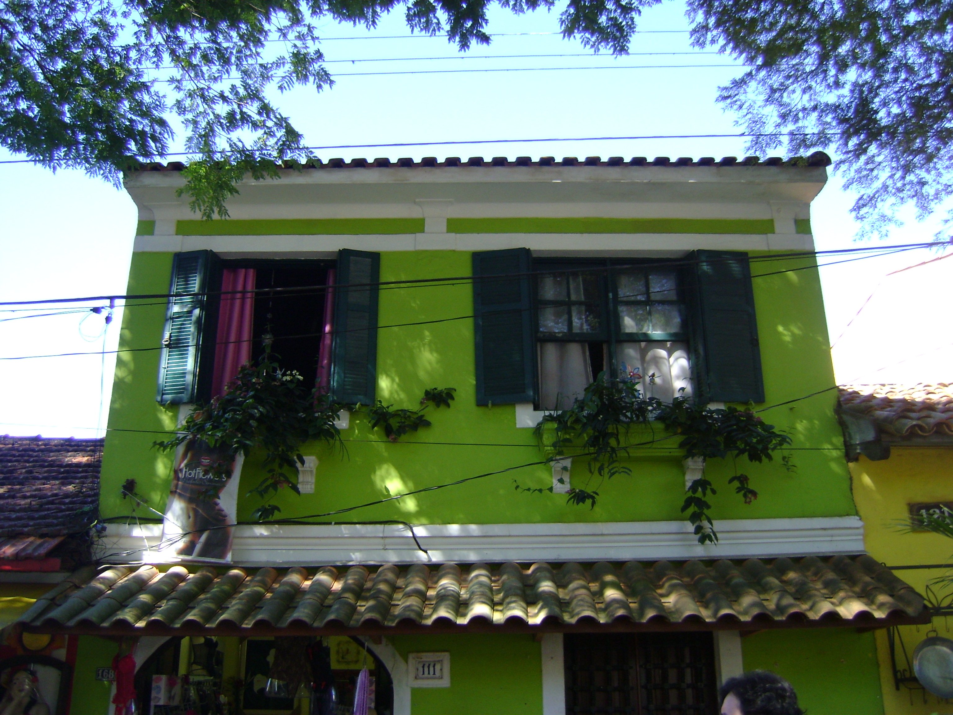 Embu's house